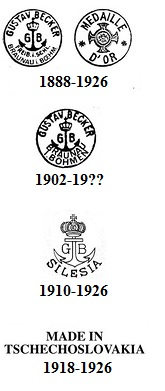 Gustav Becker Broumov logos